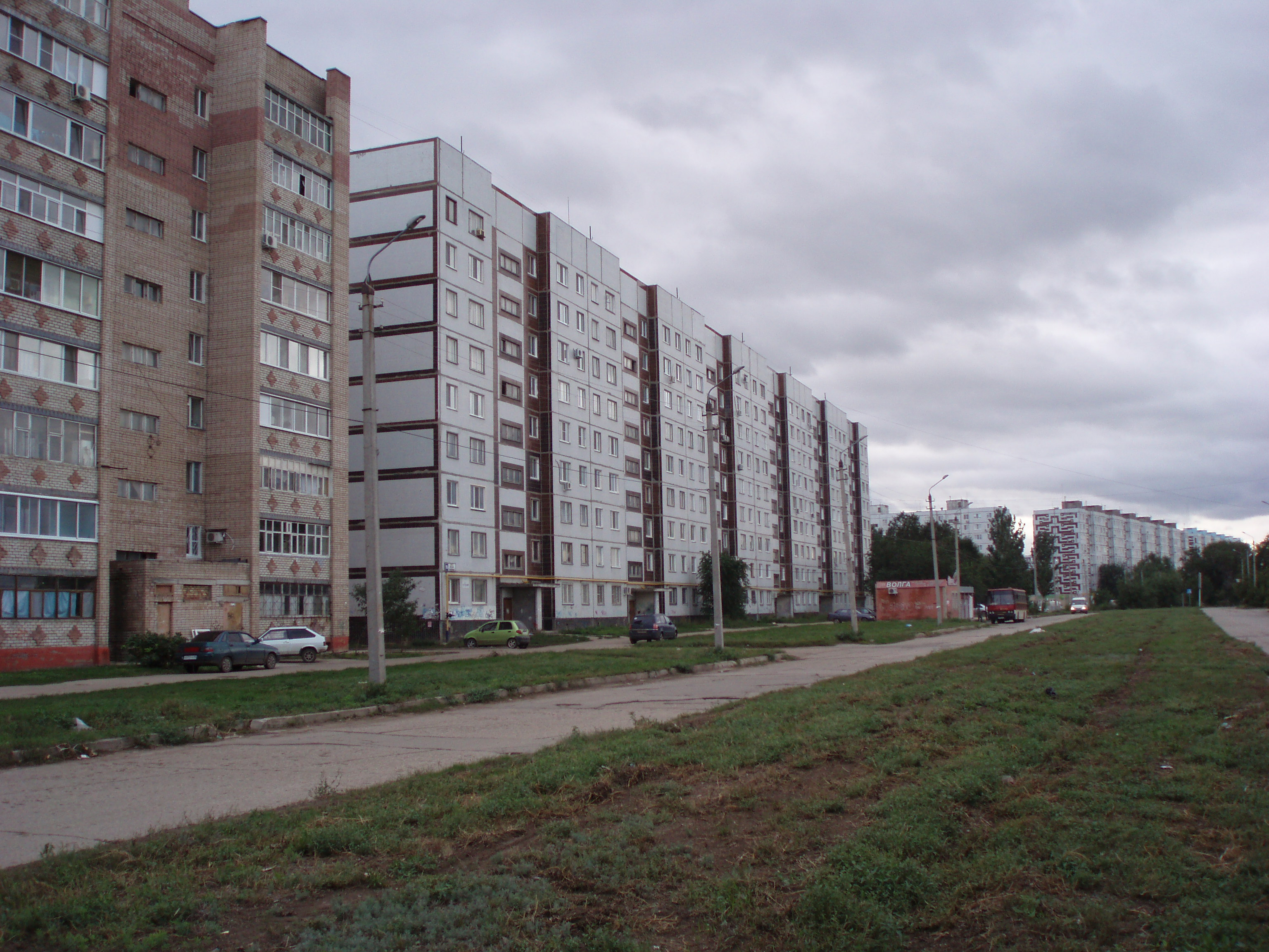 blocks near the city center in the island